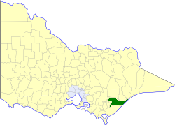 Location of the Shire of Rosedale within Victoria.